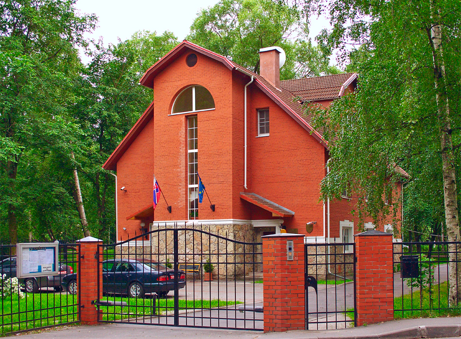 Consulate-General of Slovakia in Saint Petersburg